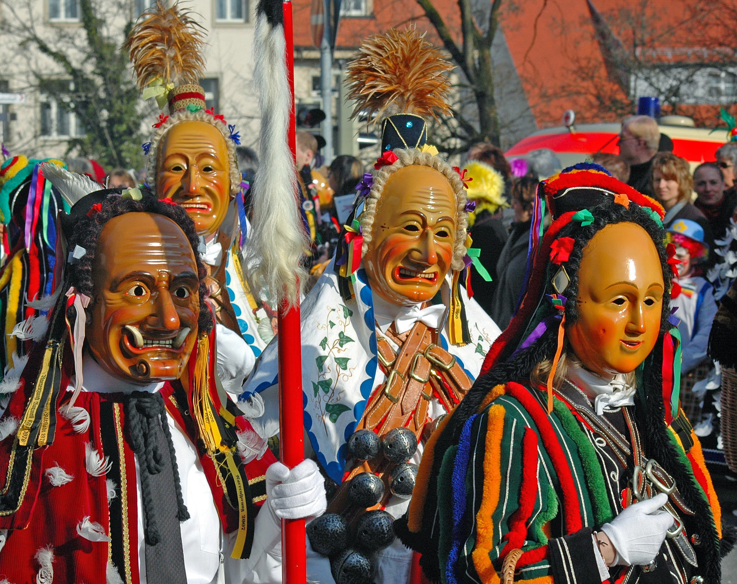 Carneval at Rottweil (Germany, 2007, People and Masks